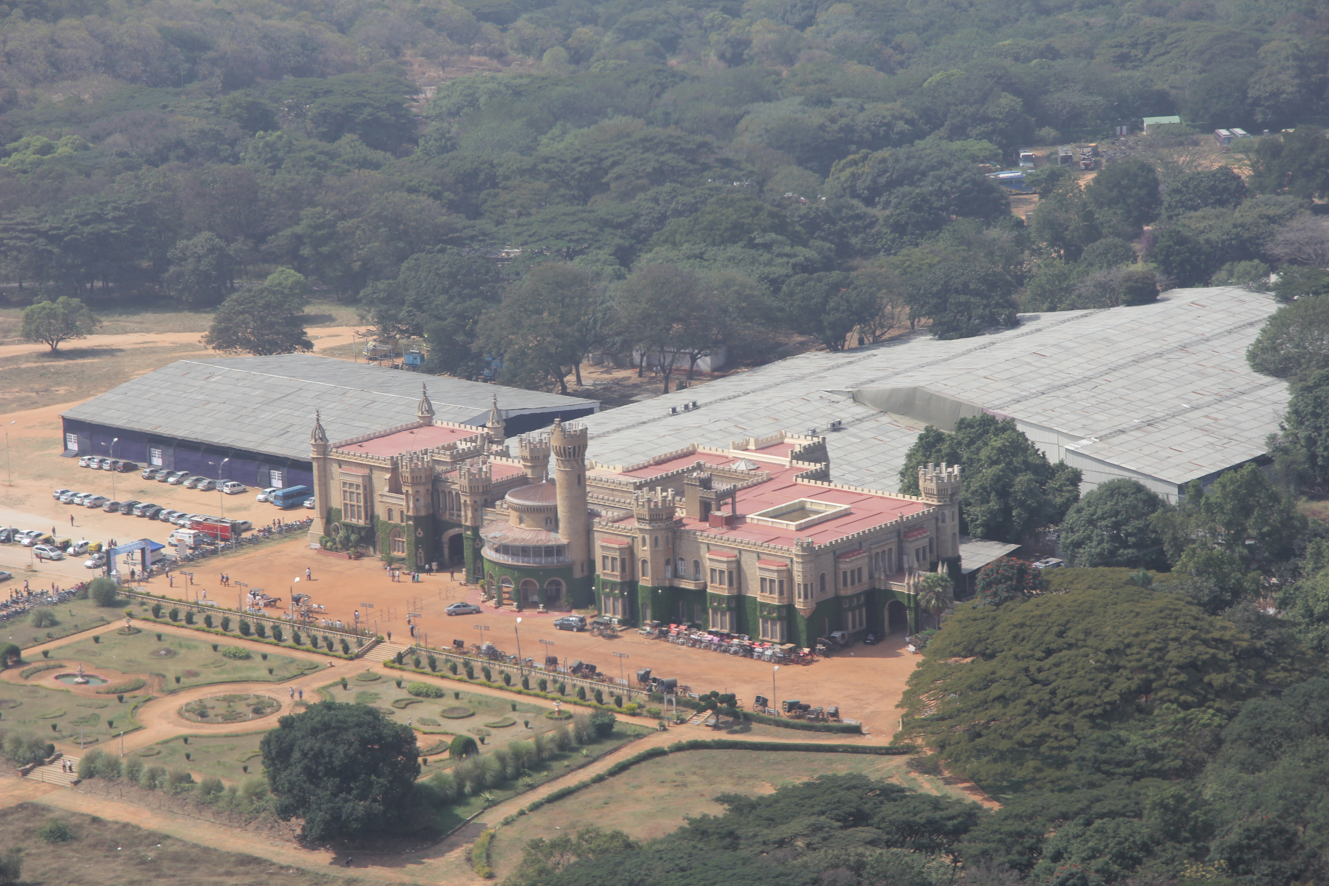 Bangalore Palace & Palace Grounds